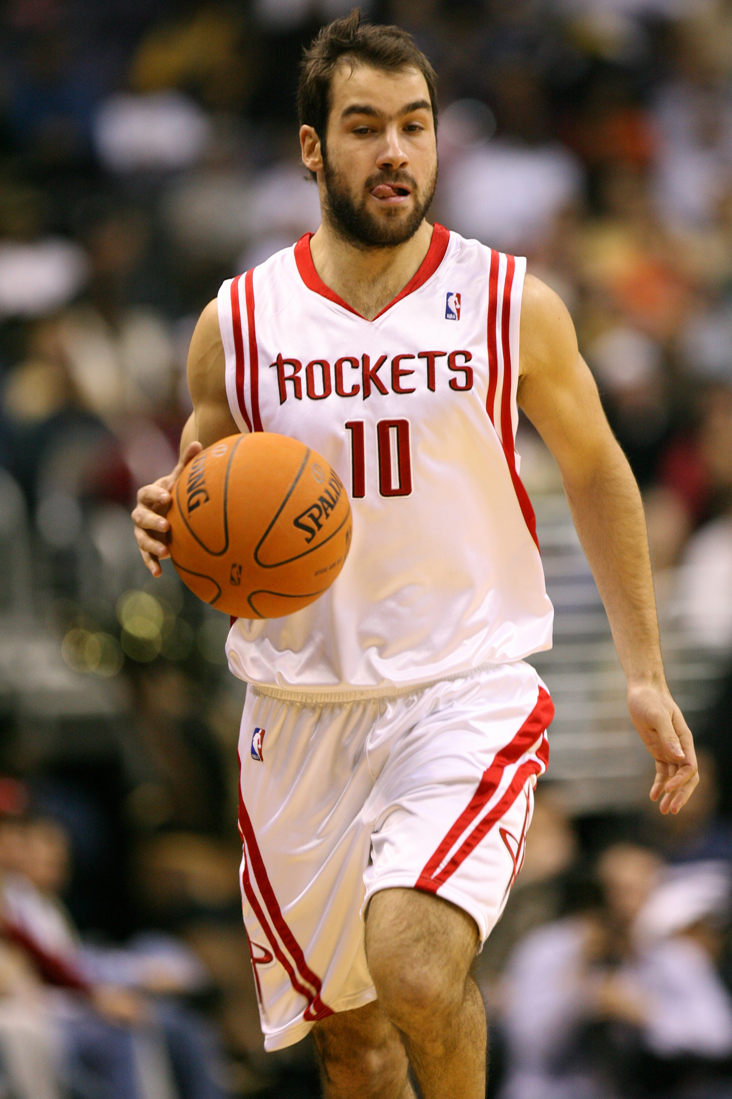 Vasileios Spanoulis, Greek basketball player for the Houston Rockets (at time of photo)